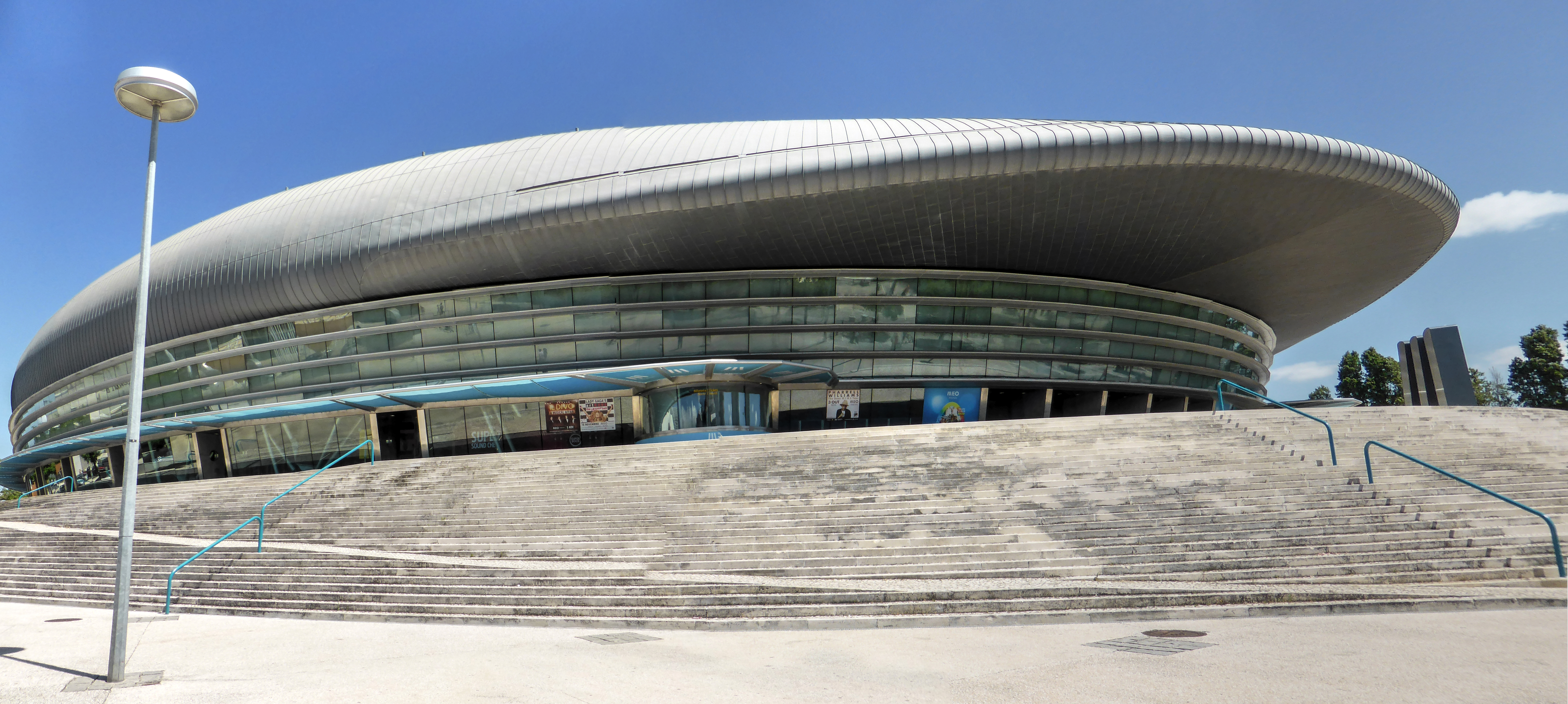 View of MEO Arena 2014 from North